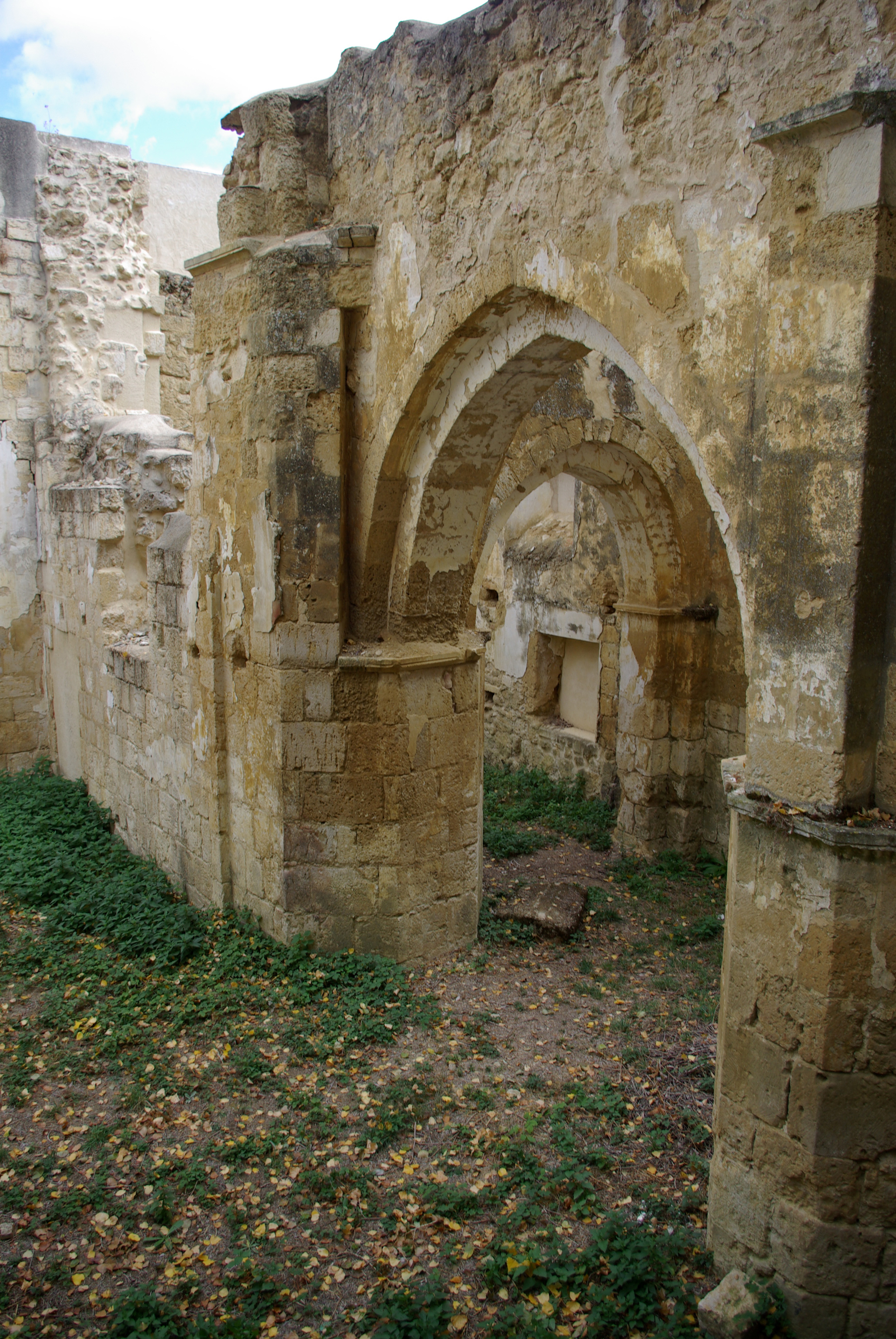 Monastery of Saint Savior of Nogal in Nogal de las Huertas (Palencia, Spain). Inside.